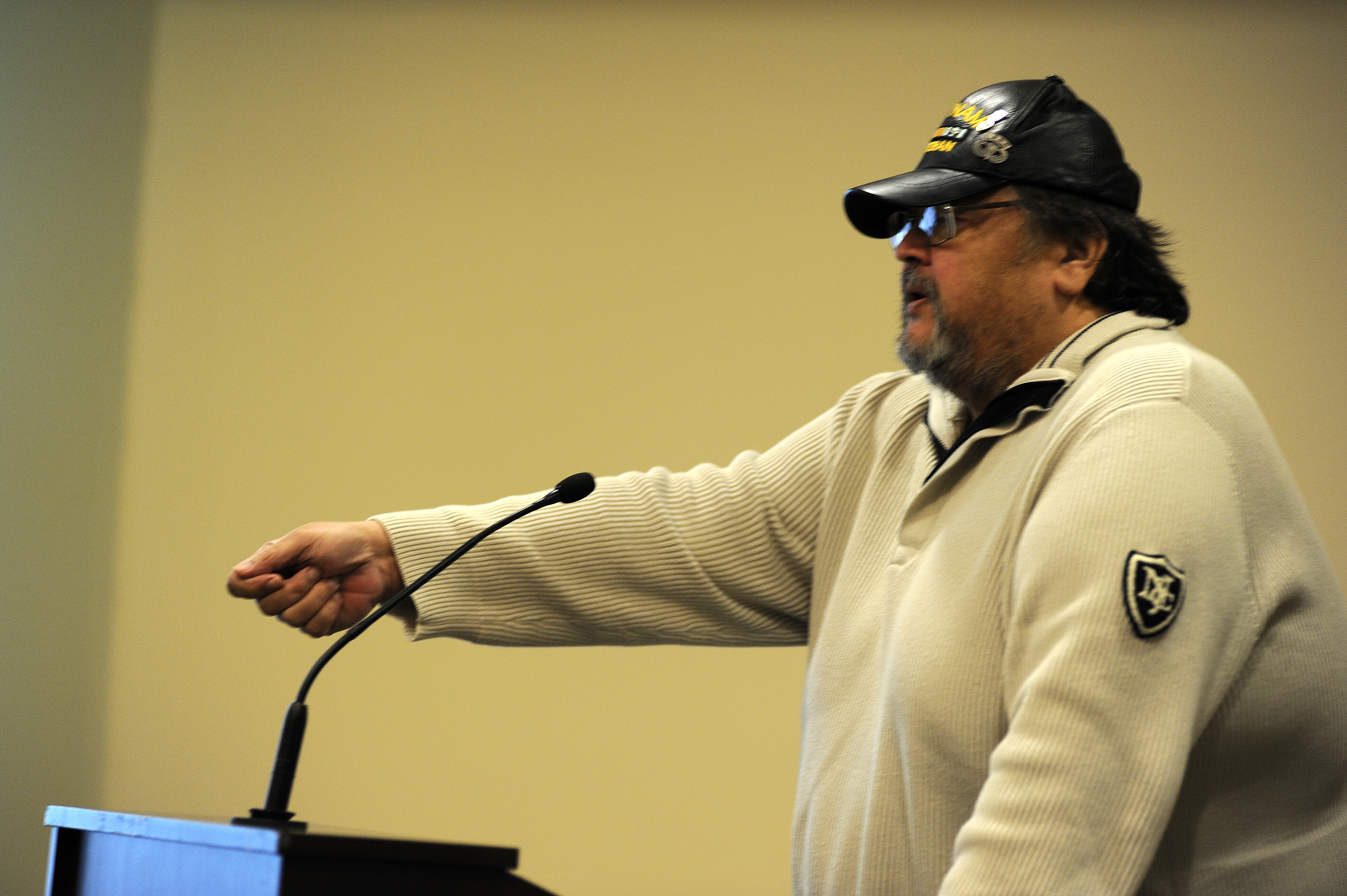 “A disability is not a qualification for a job; it’s the people we are talking about, not the disability,” said Vietnam War veteran Dr. Richard Pimentel, an acknowledged authority on the Americans with Disabilities Act, at a national NAVAIR event commemorating National Disability Employment Awareness Month and Warrior Care Month Nov. 28 (U.S. Navy photo).